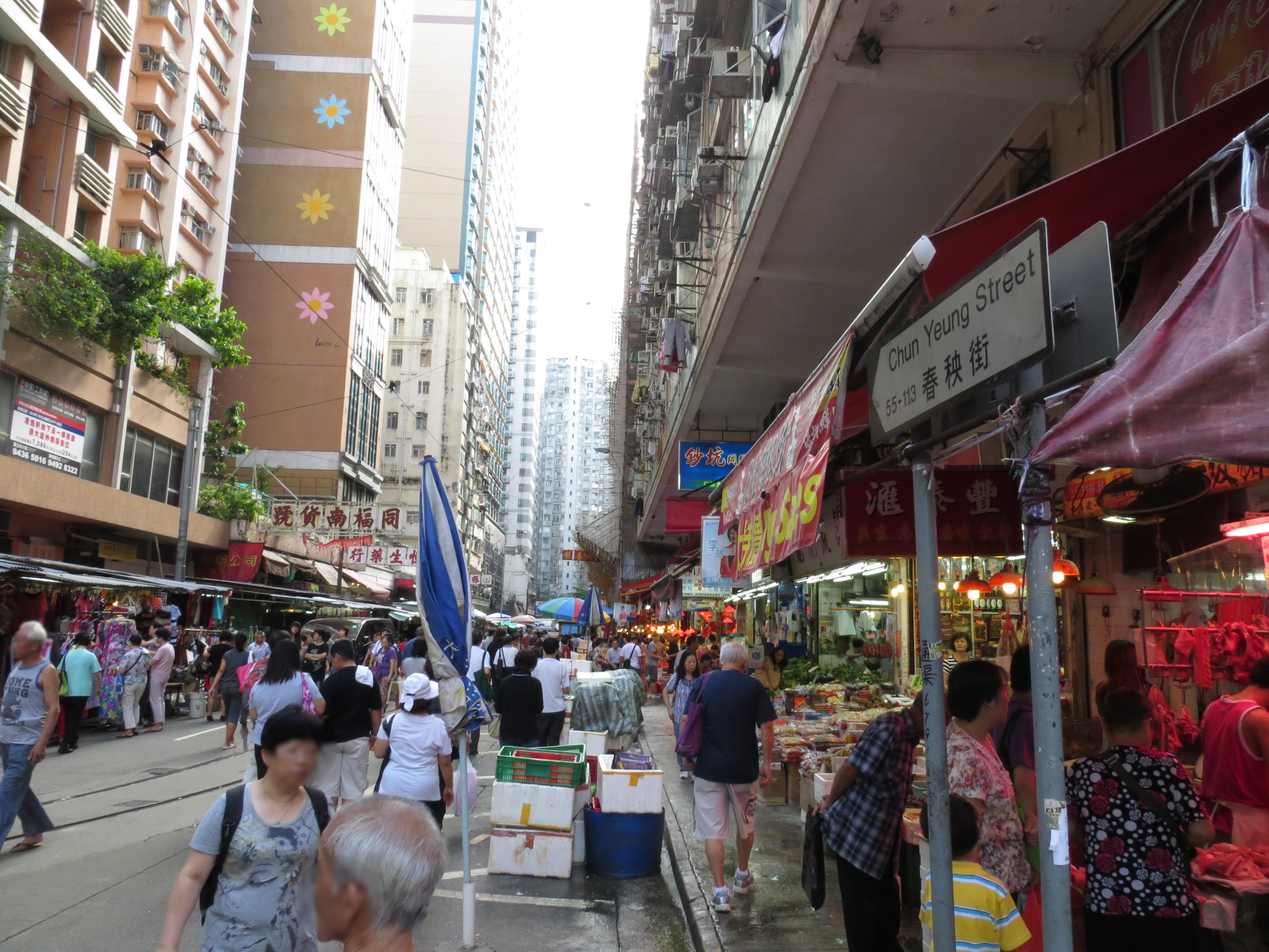 Looking west from the east end of Chun Yeung Street, North Point, Hong Kong.